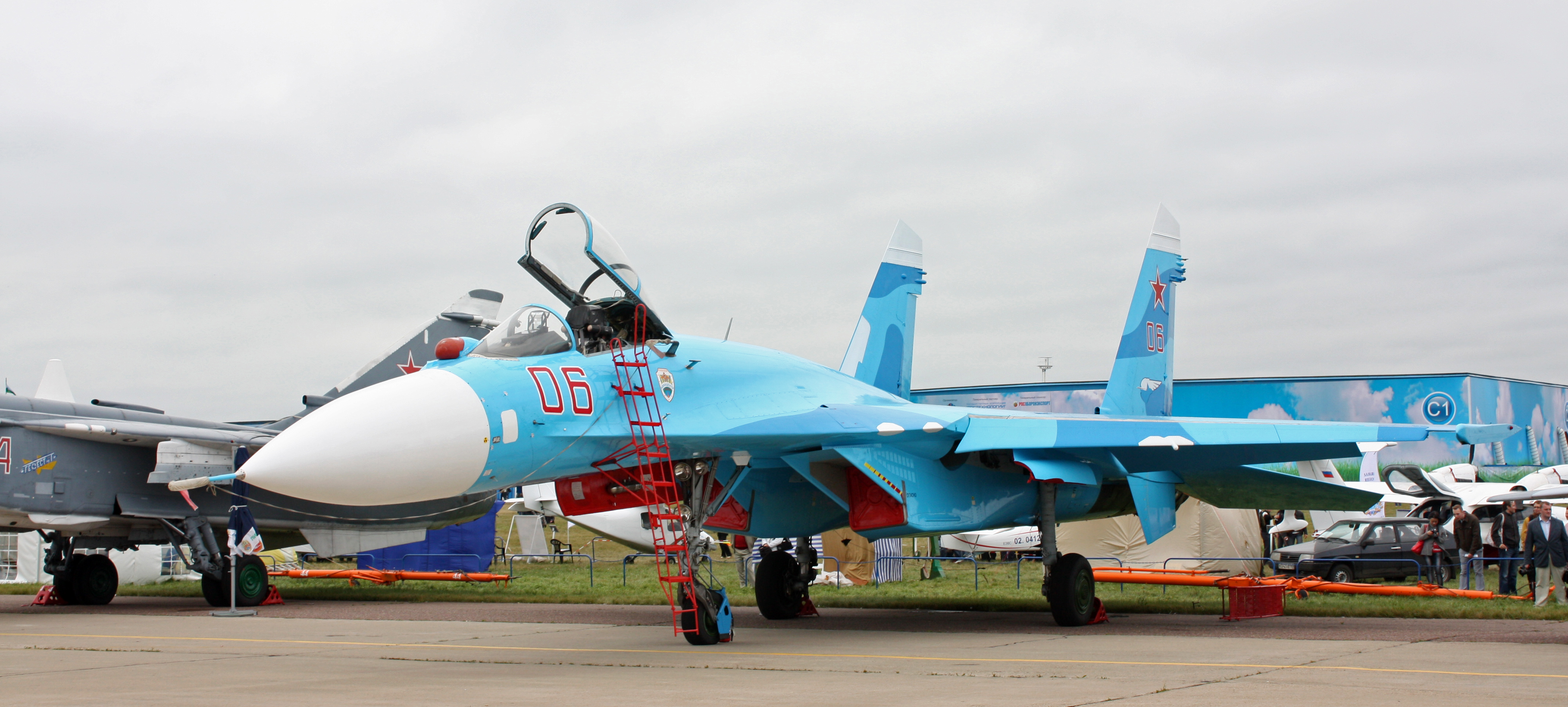 Sukhoi Su-27SM (The international aerospace salon MAKS-2009)